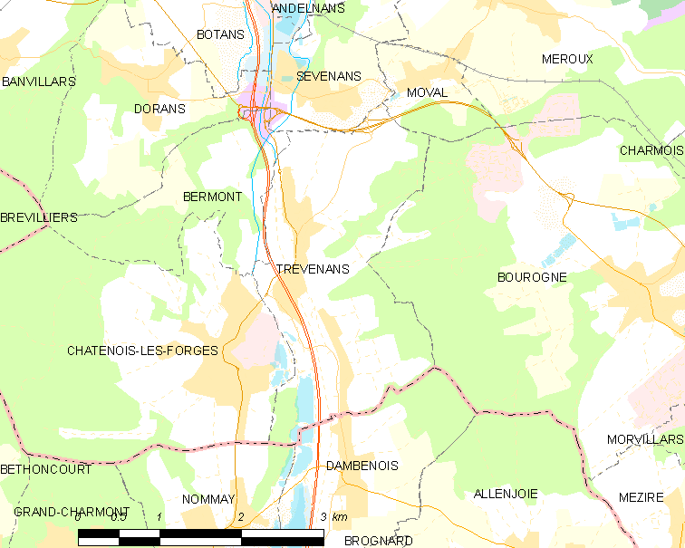 Map of French municipality Trévenans